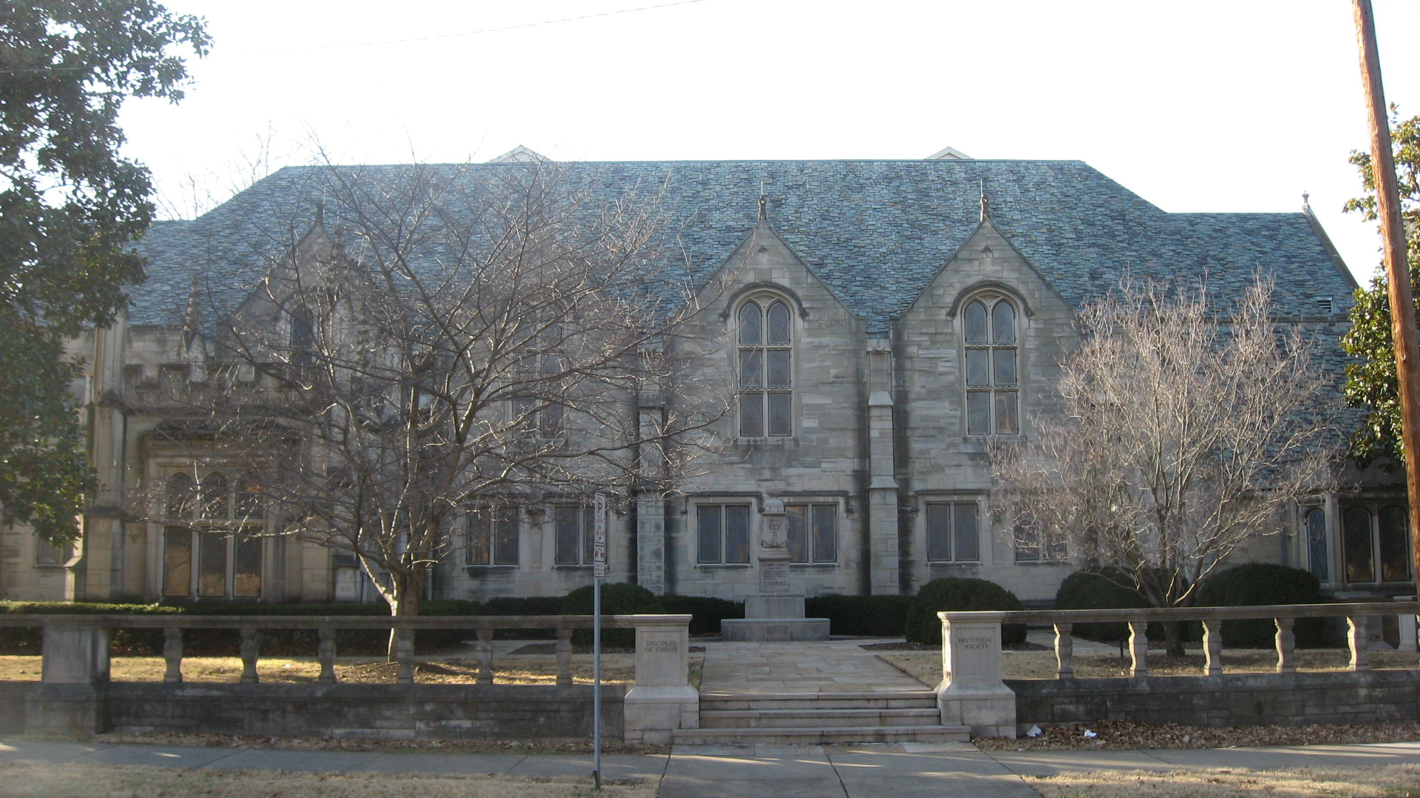 Eastern front of the Thomas W. Phillips Memorial and archives of the Christian Church (Disciples of Christ), located at 1101 Nineteenth Avenue South in Nashville, Tennessee, United States. Built in 1956, it is listed on the National Register of Historic Places.